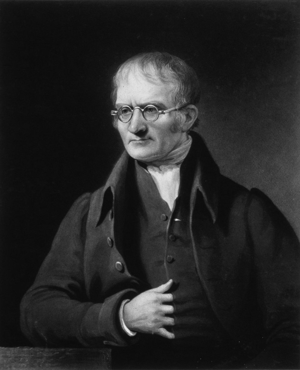 British physicist and chemist John Dalton (1766–1844) by Charles Turner (1773–1857) after James Lonsdale (1777–1839). Mezzotint.